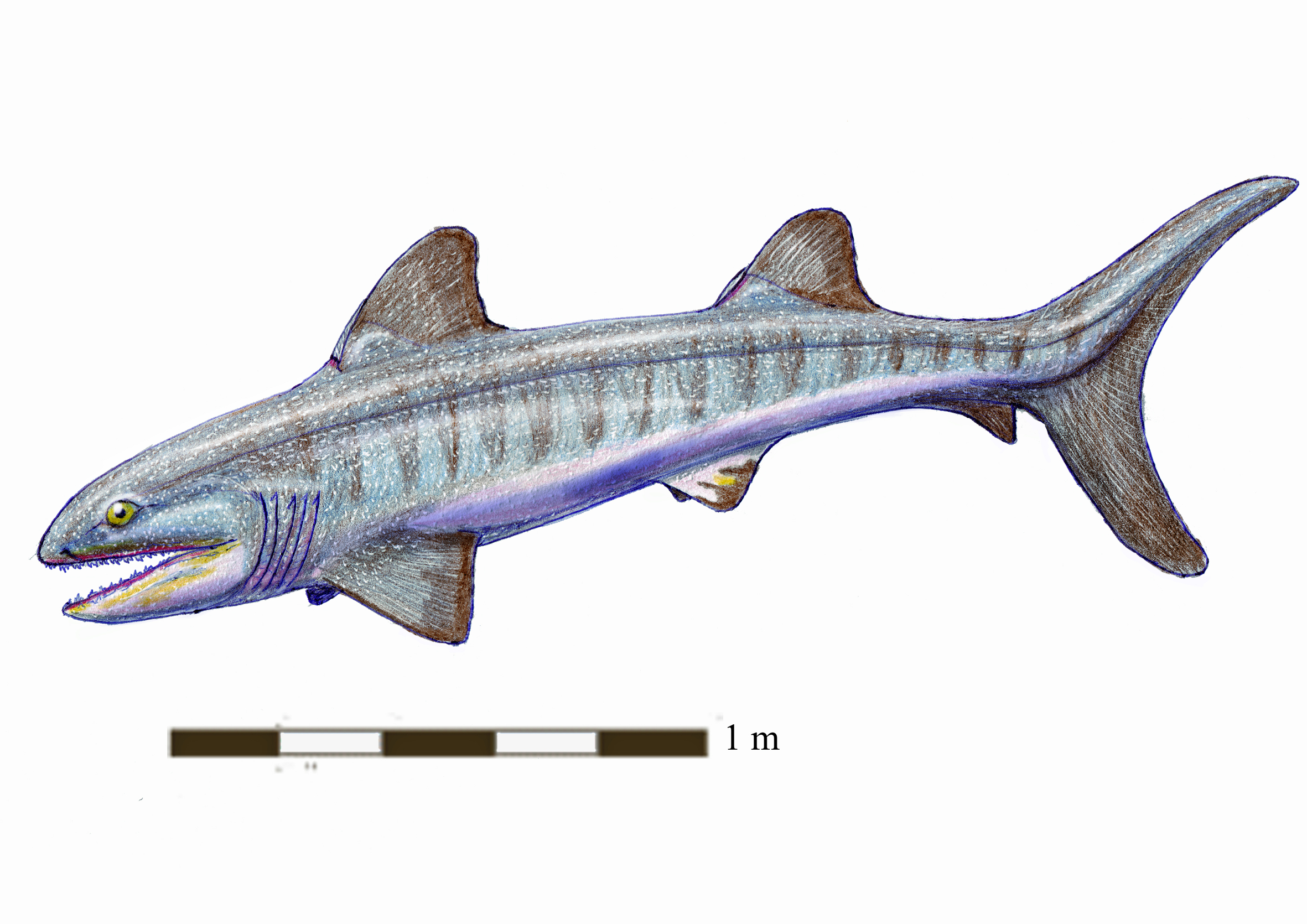 Goodrichthys eskdalensis, ctenacanthid shark from Early Carboniferous of Glencartholm, Scotland